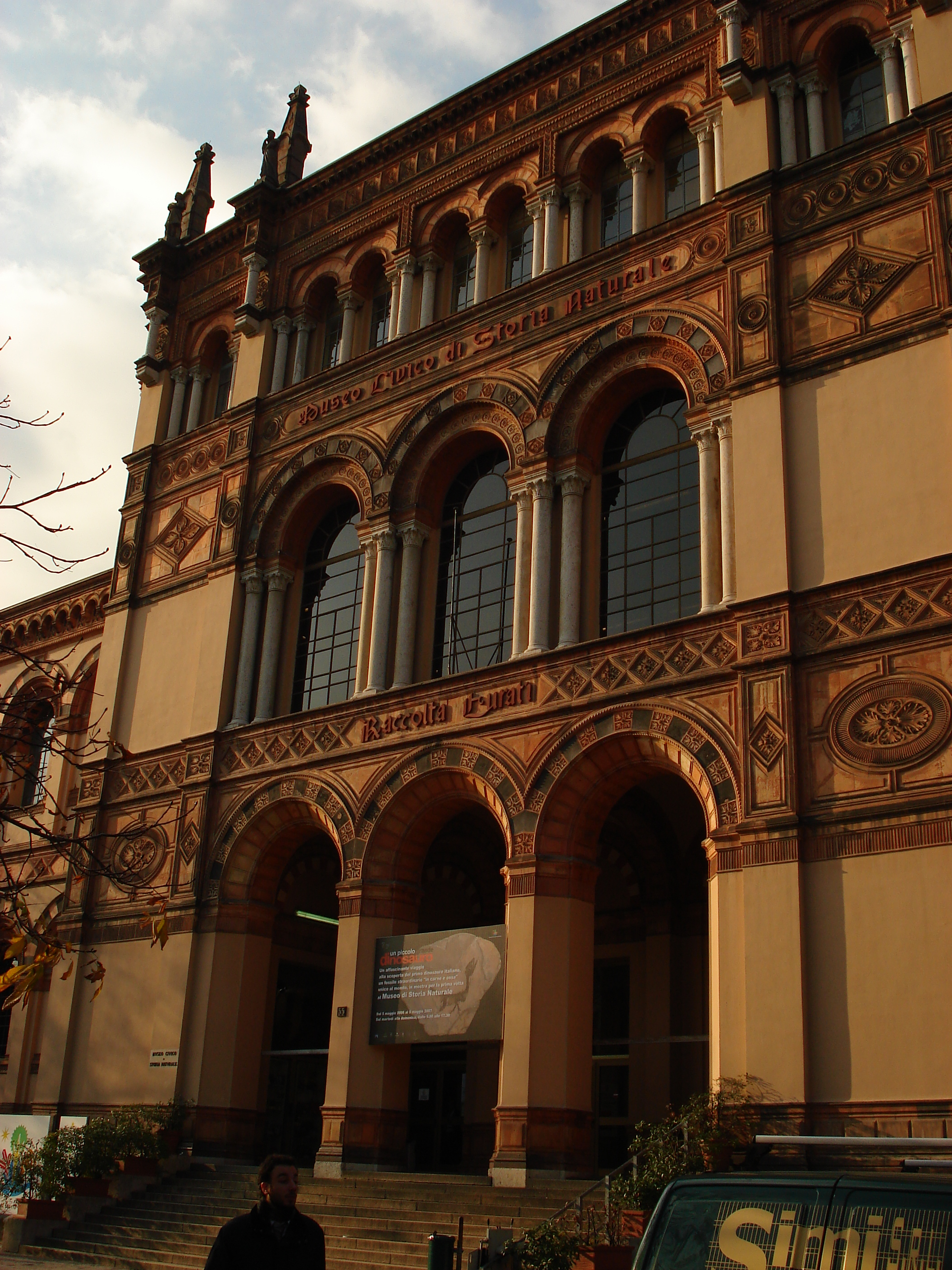 Entrance to the Natural history museum in Milan, Italy. Picture by Giovanni Dall'Orto, december 20 2006.